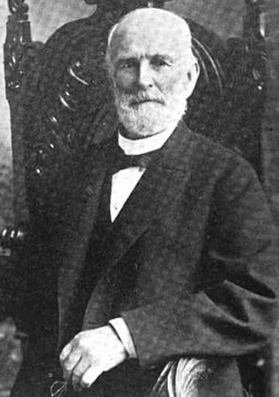 Photograph of California Supreme Court Justice Milton H. Myrick.